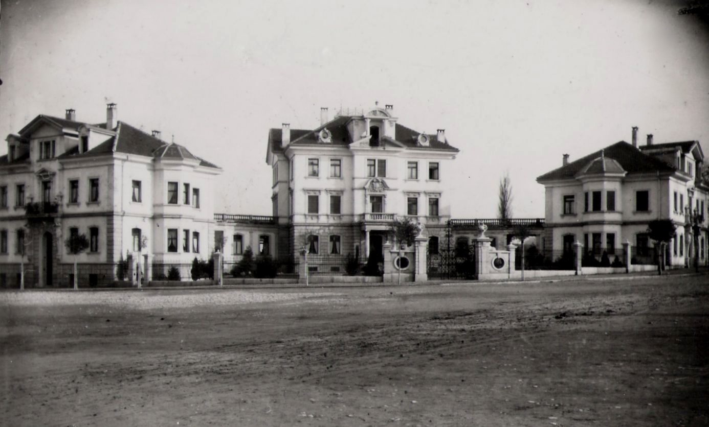 villa Moos